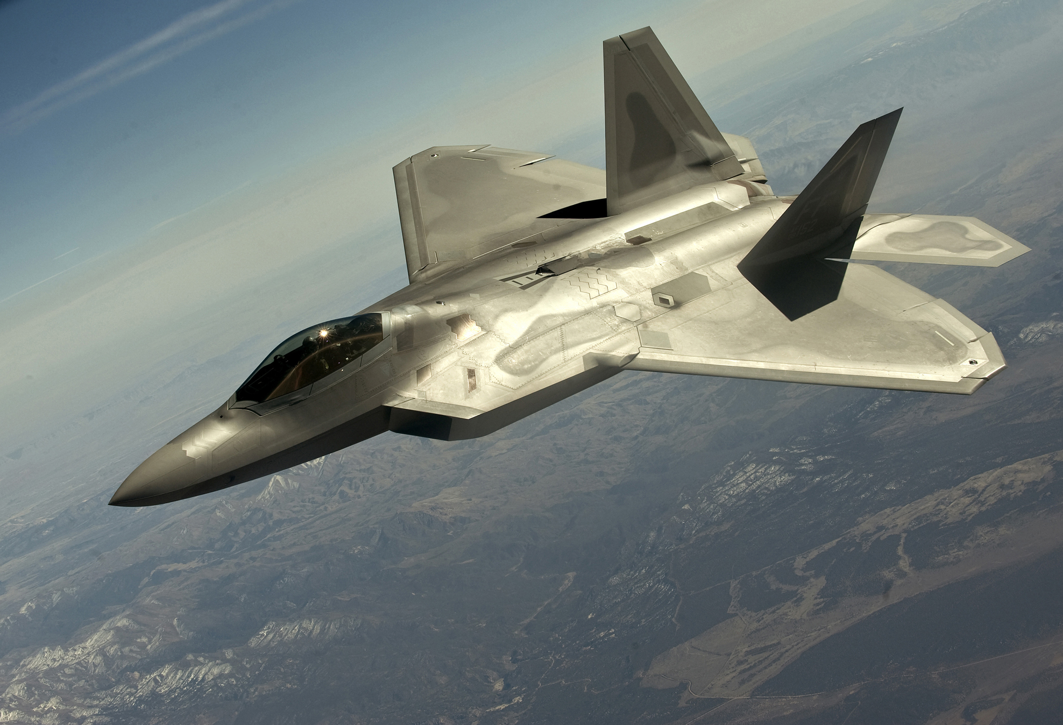 A U.S. Air Force F-22 Raptor fighter aircraft belonging to the 1st Fighter Wing out of Langley Air Force Base, flies in a training mission during Red Flag 12-3 over the Nevada Test and Training Range March 13, 2012.